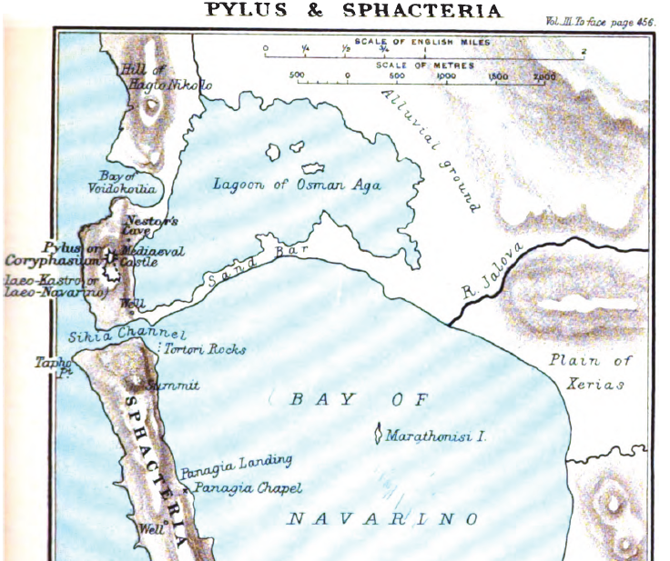 Map of Messenia coast of Greece showing Coryphasium, Osman Aga Lagoon, northern Navarino Bay, northern Sphateria, Voidokoilia Bay, and Nestor's Cave